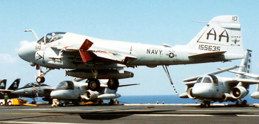 A U.S. Navy Grumman A-6E Intruder (BuNo 155635) from Attack Squadron 75 (VA-75) "Sunday Punchers" prepares to catch the hook as it lands onboard the aircraft carrier USS Enterprise (CVN-65) on 9 September 1996. The Enterprise was attached to the U.S. Sixth Fleet and conducted flight operations in the Adriatic Sea in support of "Operation Joint Endeavor". Operation Joint Endeavor was a peacekeeping effort by a multinational Implementation Force (IFOR), comprised of NATO and non-NATO military forces, deployed to Bosnia in support of the Dayton Peace Accords. VA-75 was assigned to Carrier Air Wing 17 (CVW-17) aboard the Enterprise for a deployment to the Mediterranean Sea from 28 June to 20 December 1996. VA-75 was disestablished following this deployment on 21 March 1997.